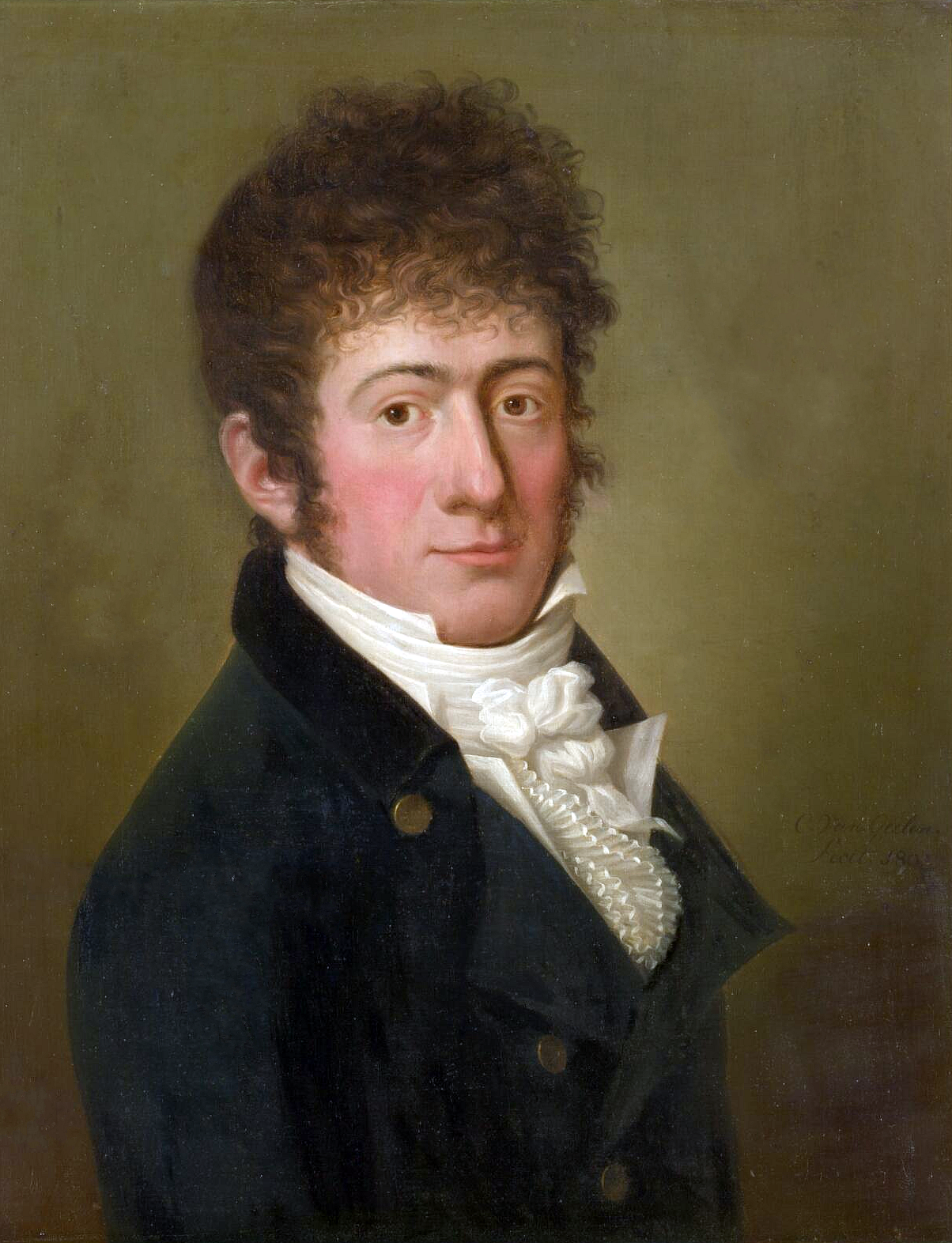 Johan Steengracht van Oostcapelle (1782-1846), Lord of Moyland, Till, Ossenbruch and Oostcapelle. Director of the Royal Picture Gallery in The Hague. Director of the Mauritshuis Museum in The Hague.